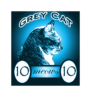 10-meow stamp. One of a series of definitives i created today.